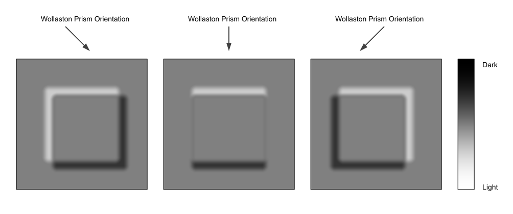 Example of a common imaging artifact of a differential interference contrast microscopy setup.